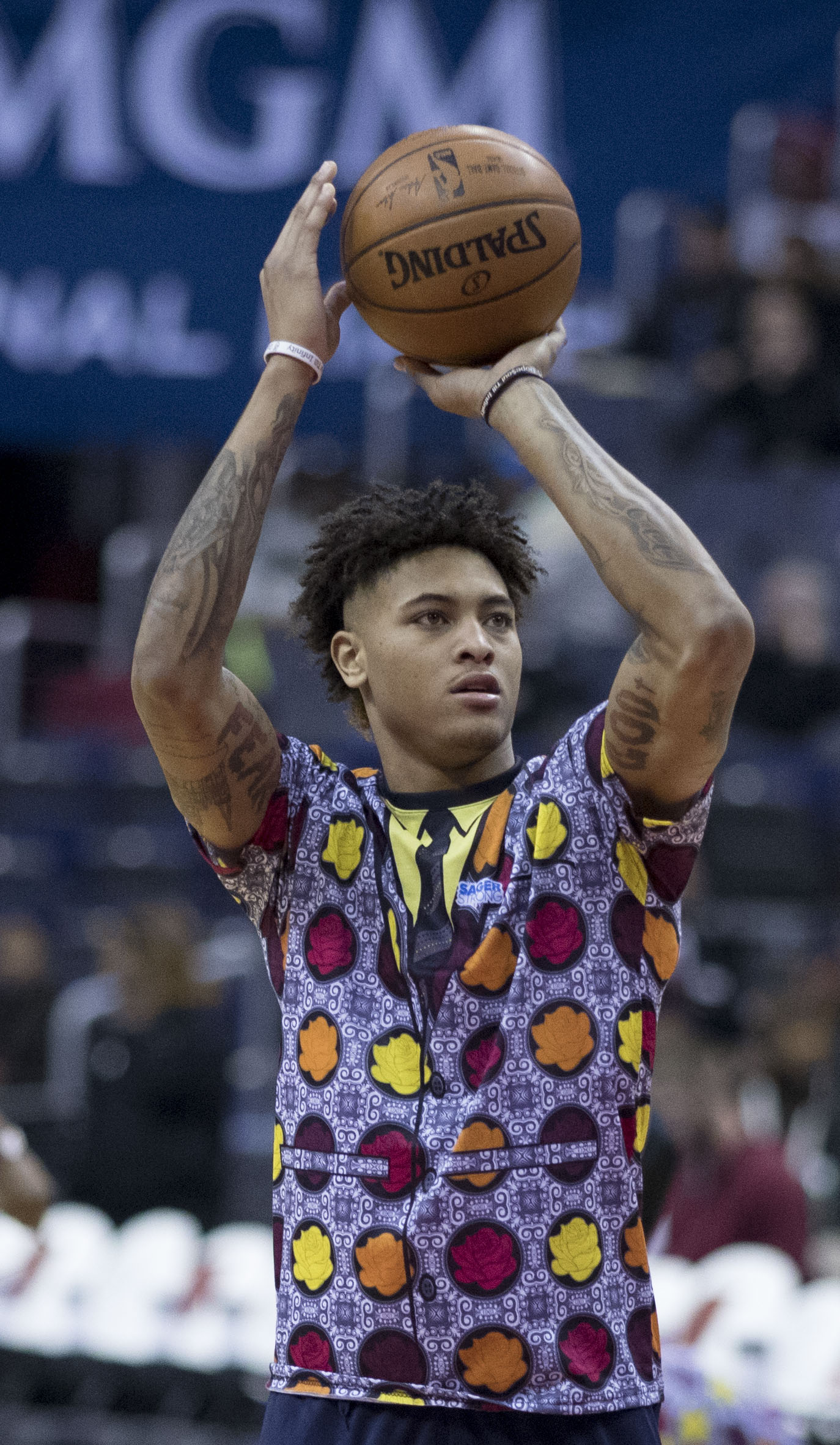 Pistons at Wizards 12/16/16